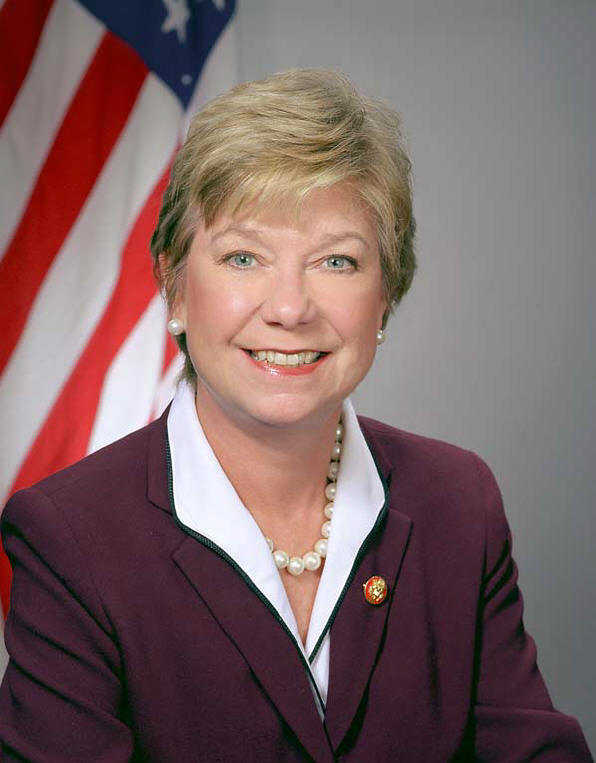 Congresswoman Deborah Pryce (R-Ohio, 1993-present), Chair of the Republican Conference of the United States House of Representatives